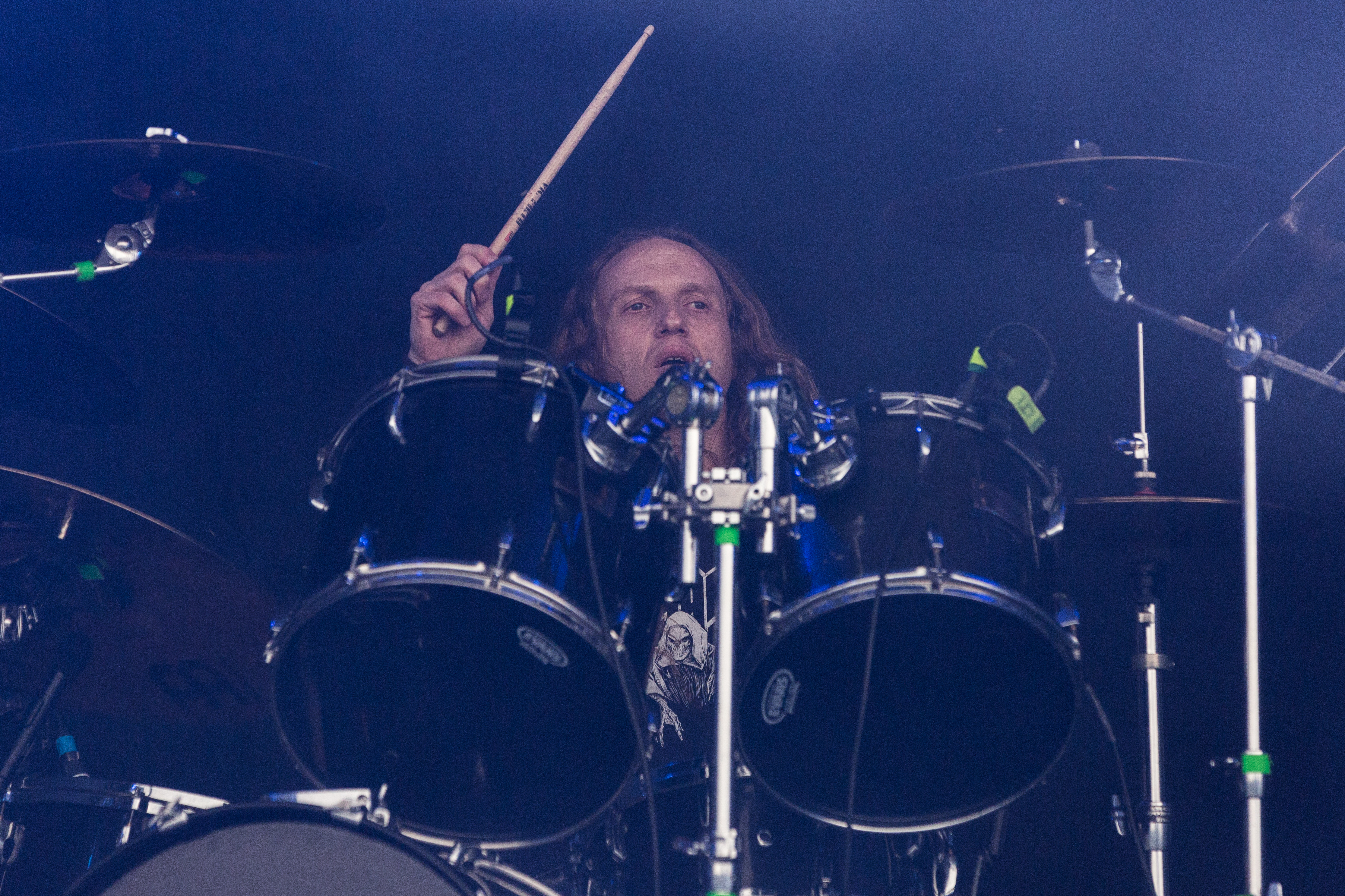 The Norwegian black/thrash metal band Aura Noir at the Party.San Metal Open Air 2017 in Obermehler-Schlotheim/Germany.